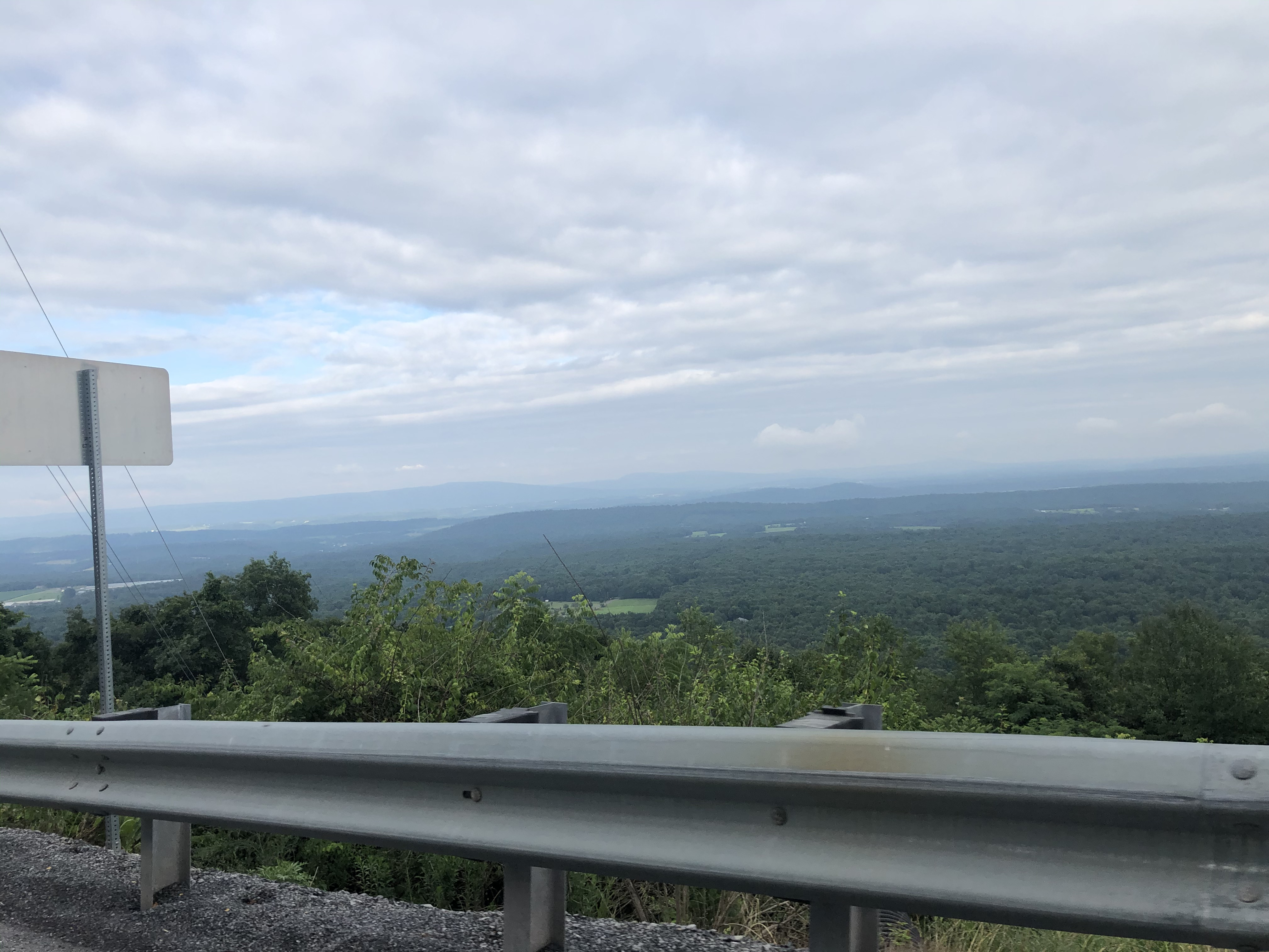 Overlooking Warfordsburg Vally area east of I-70